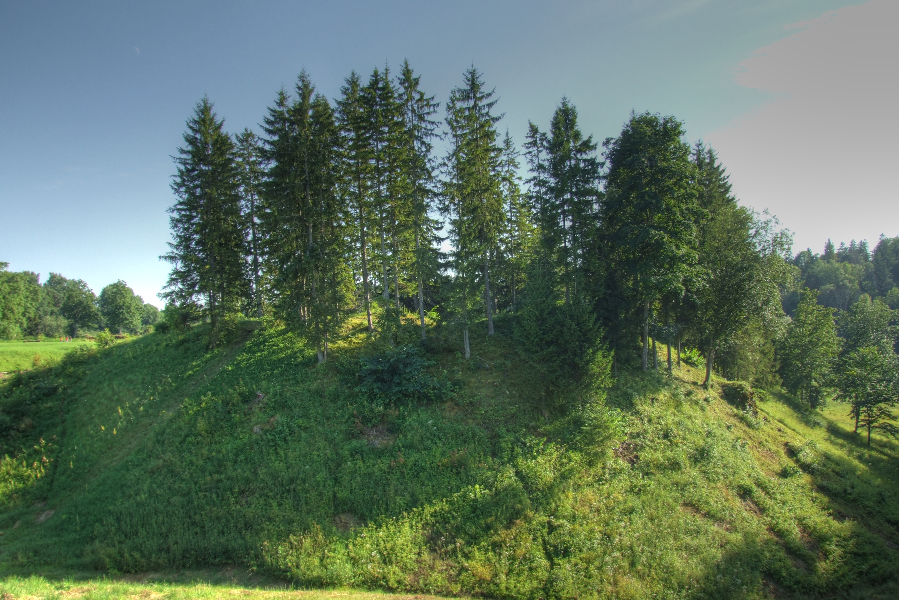 Karksi castle hill